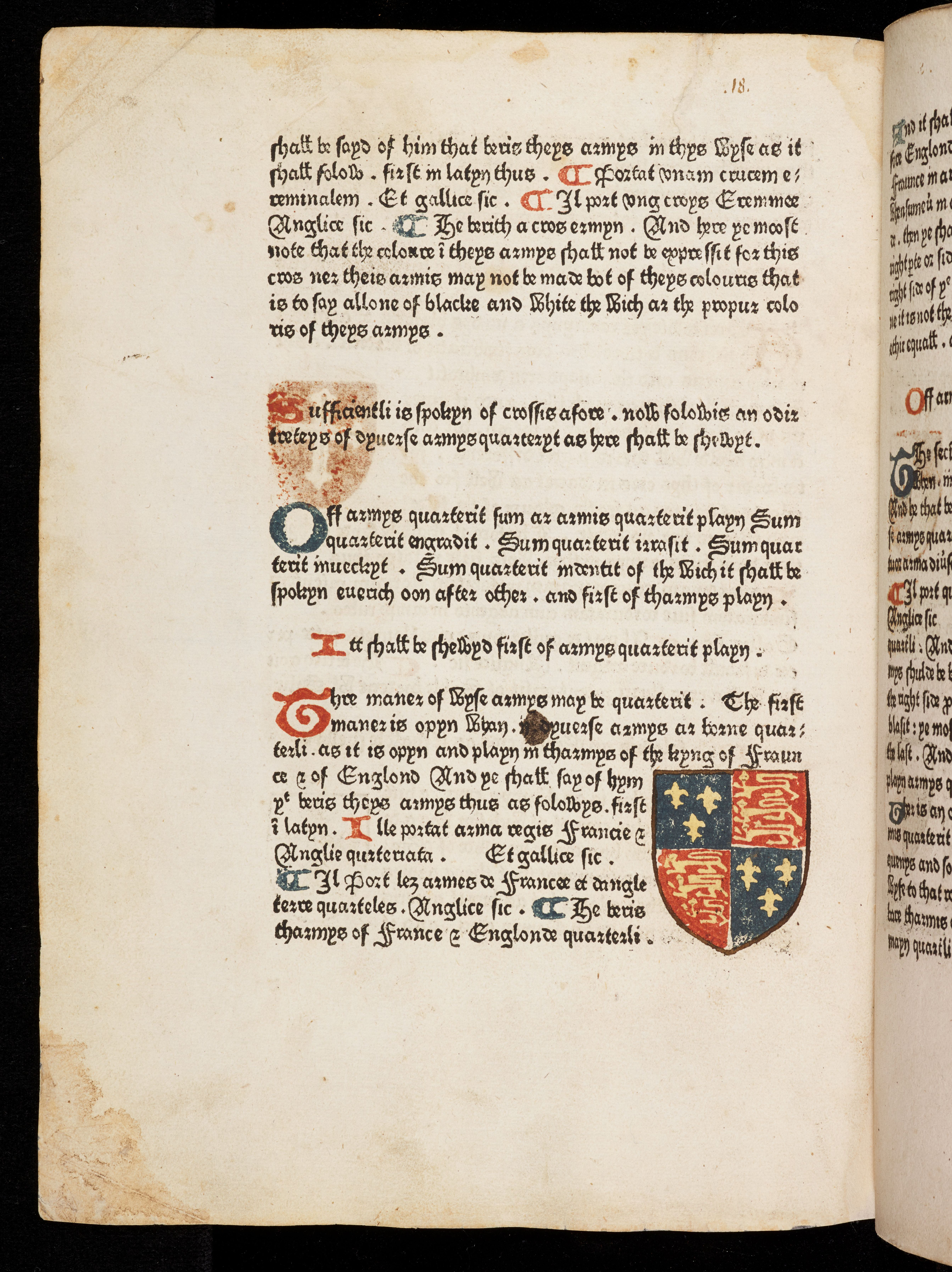 Inc.3.J.4.1[3636], fol. 65v, colour printing, after 1486. (c.1388-), Book of hawking, hunting and blasing of arms (Book of St Albans), with obscene pencil drawing in margin St Albans: Schoolmaster Printer, [not before 1486]